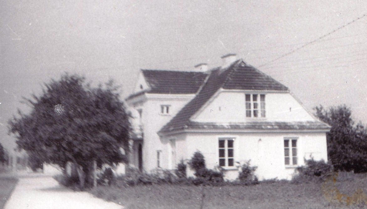 Podgorskis' Villa after reconstruction in 1948